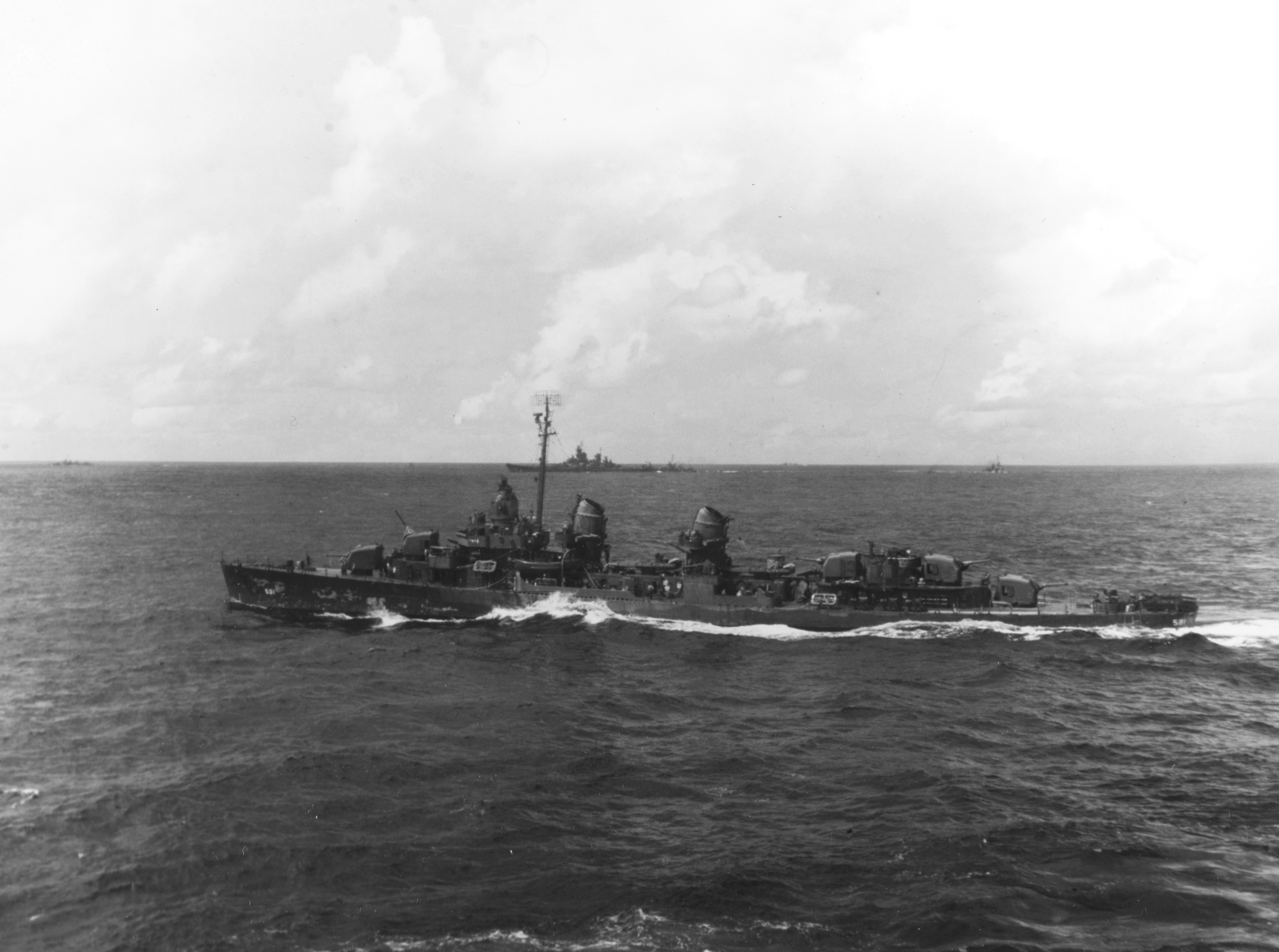 The U.S. Navy destroyer USS Charrette (DD-581) screening the battleship USS New Jersey (BB-62) during the Battle of Leyte Gulf, 24 October 1944.